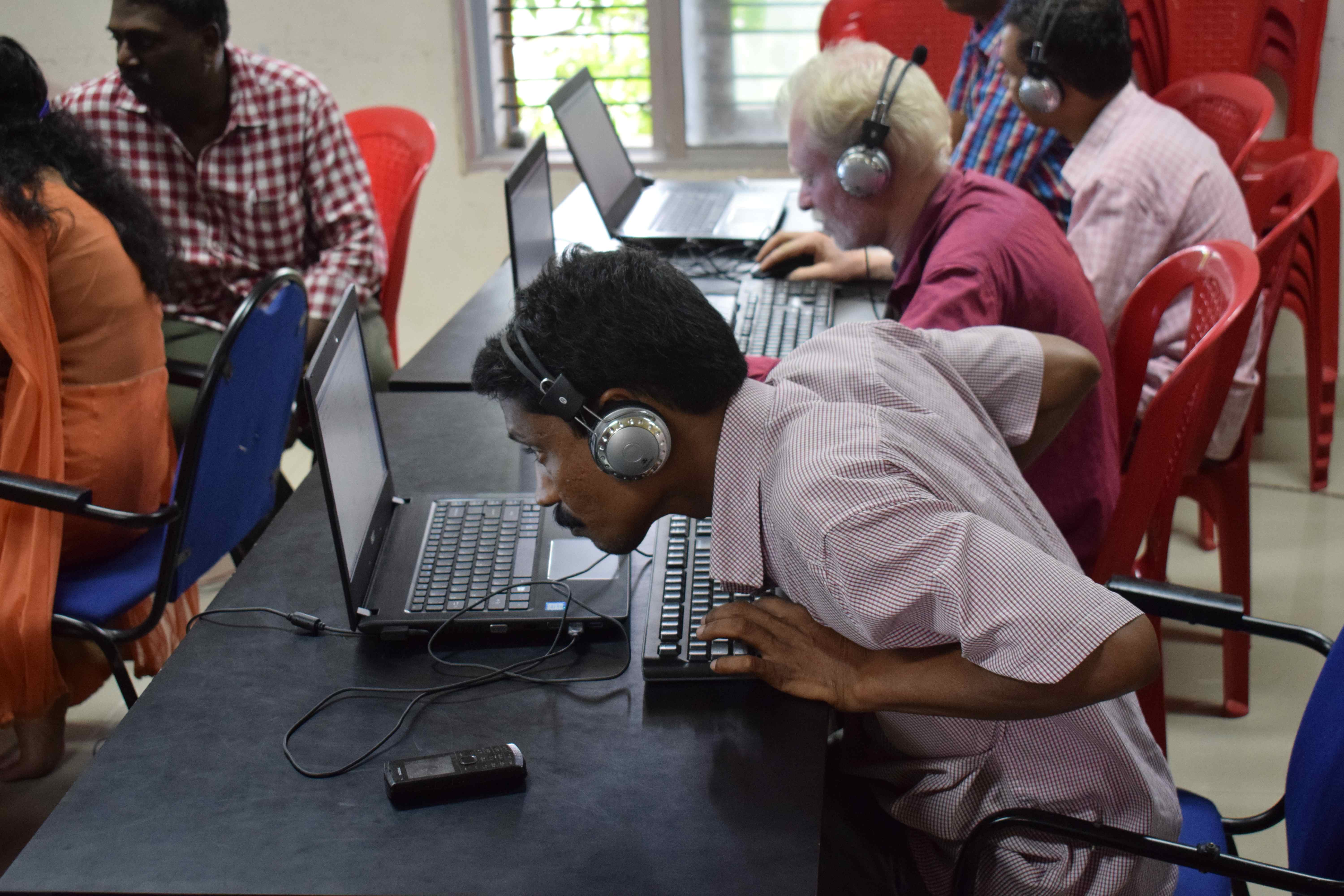 ICT training for blind teachers by It@School Kollam